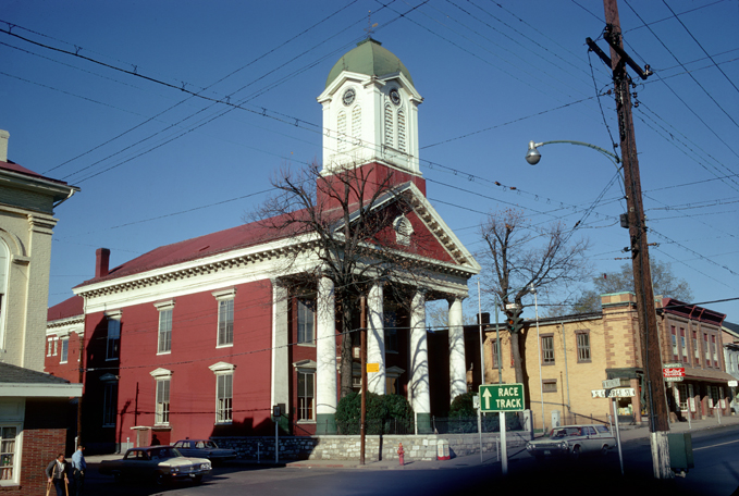 Front of the Jefferson County Courthouse, located at the intersection of N. George and E. Washington Streets in Charles Town, West Virginia, United States. Built in 1859, it is listed on the National Register of Historic Places.